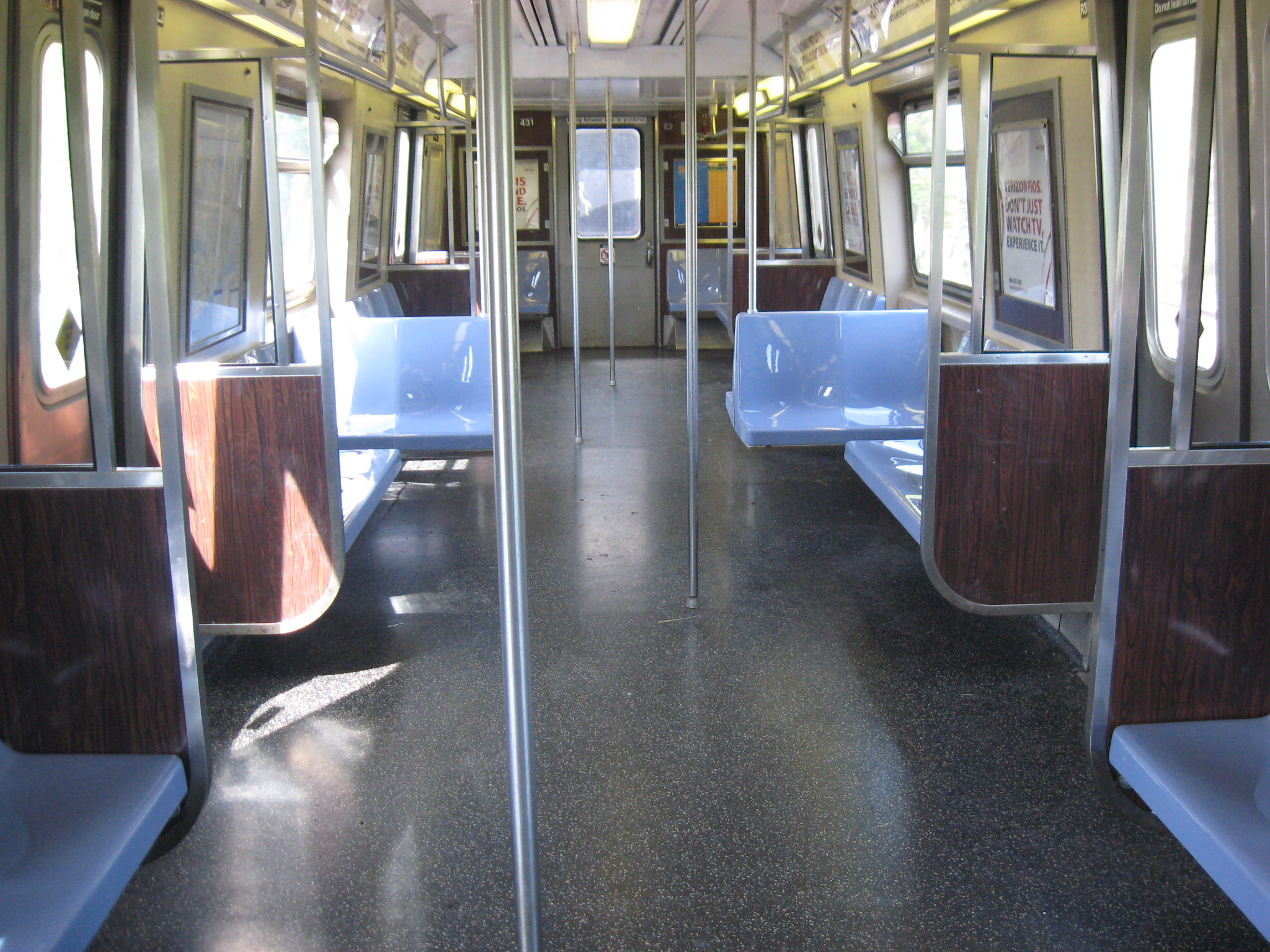 The interior of Staten Island Railway R44 car number 431 in the daytime.